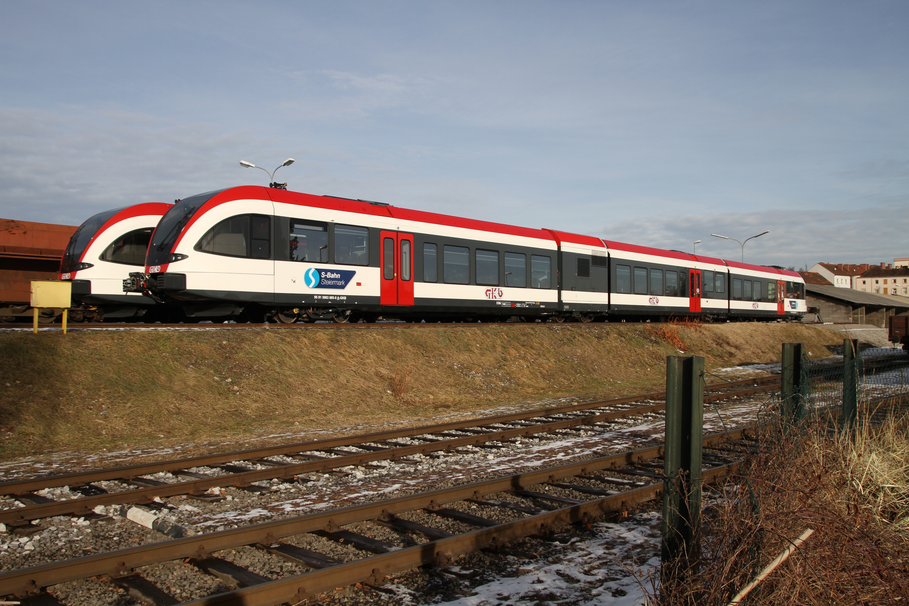 New Stadler built GTW 2/8 of the GKB at Graz Köflacherbahnhof